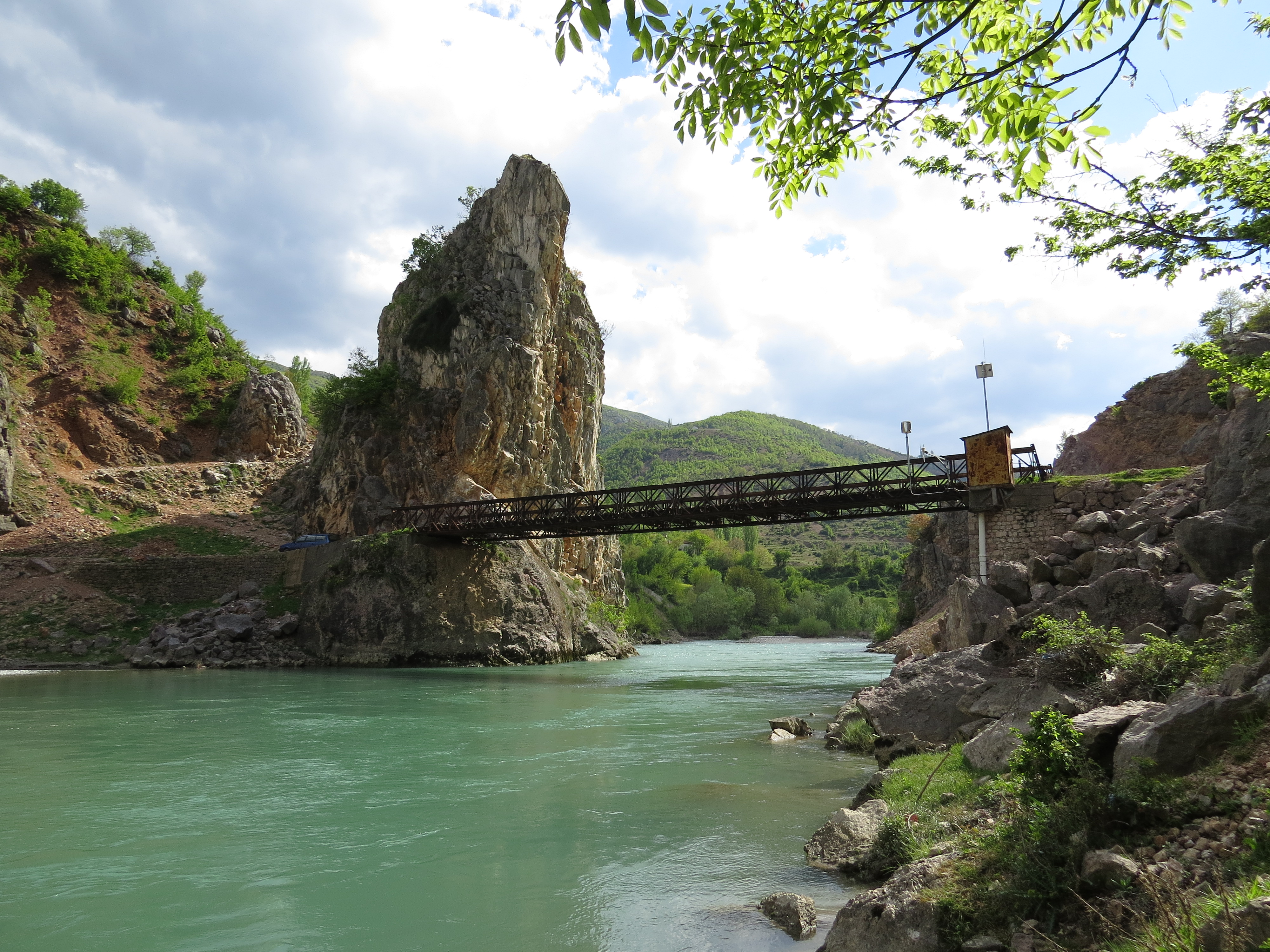 Ura e skavicës ndodhet mbi lumin Drini i Zi, në territorin e komunës Ujmisht Kukës Albania